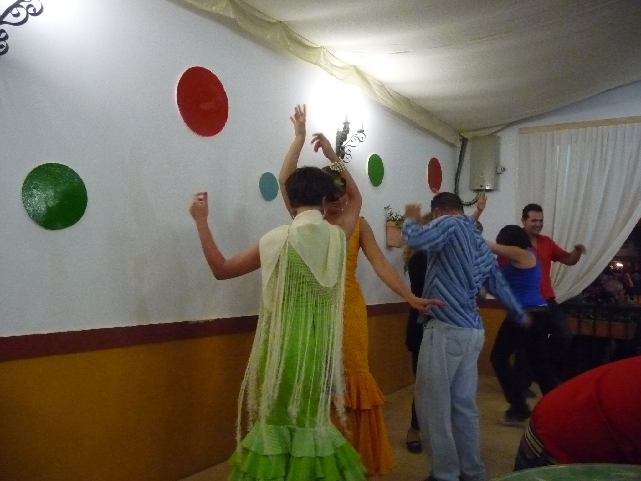 Feria of Jerez 2010